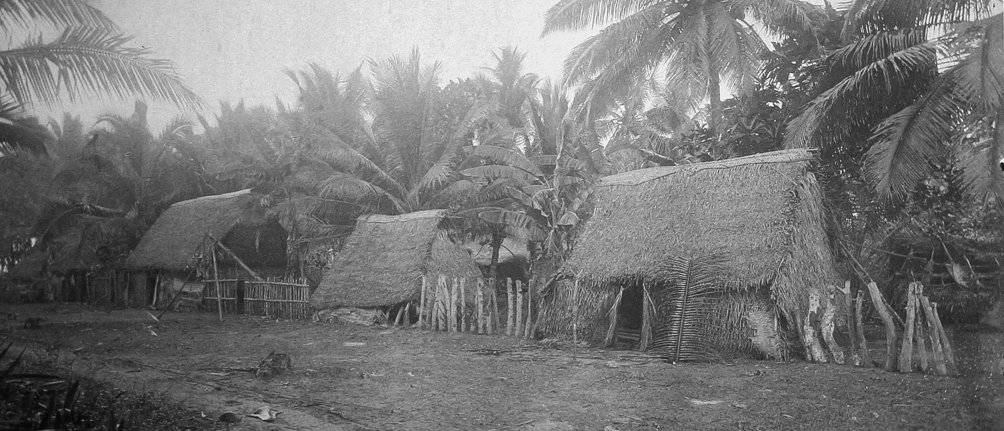 "South Sea cruise 99-1900, Ladrone Islands, Guam, Caroline islanders village near Agana" from